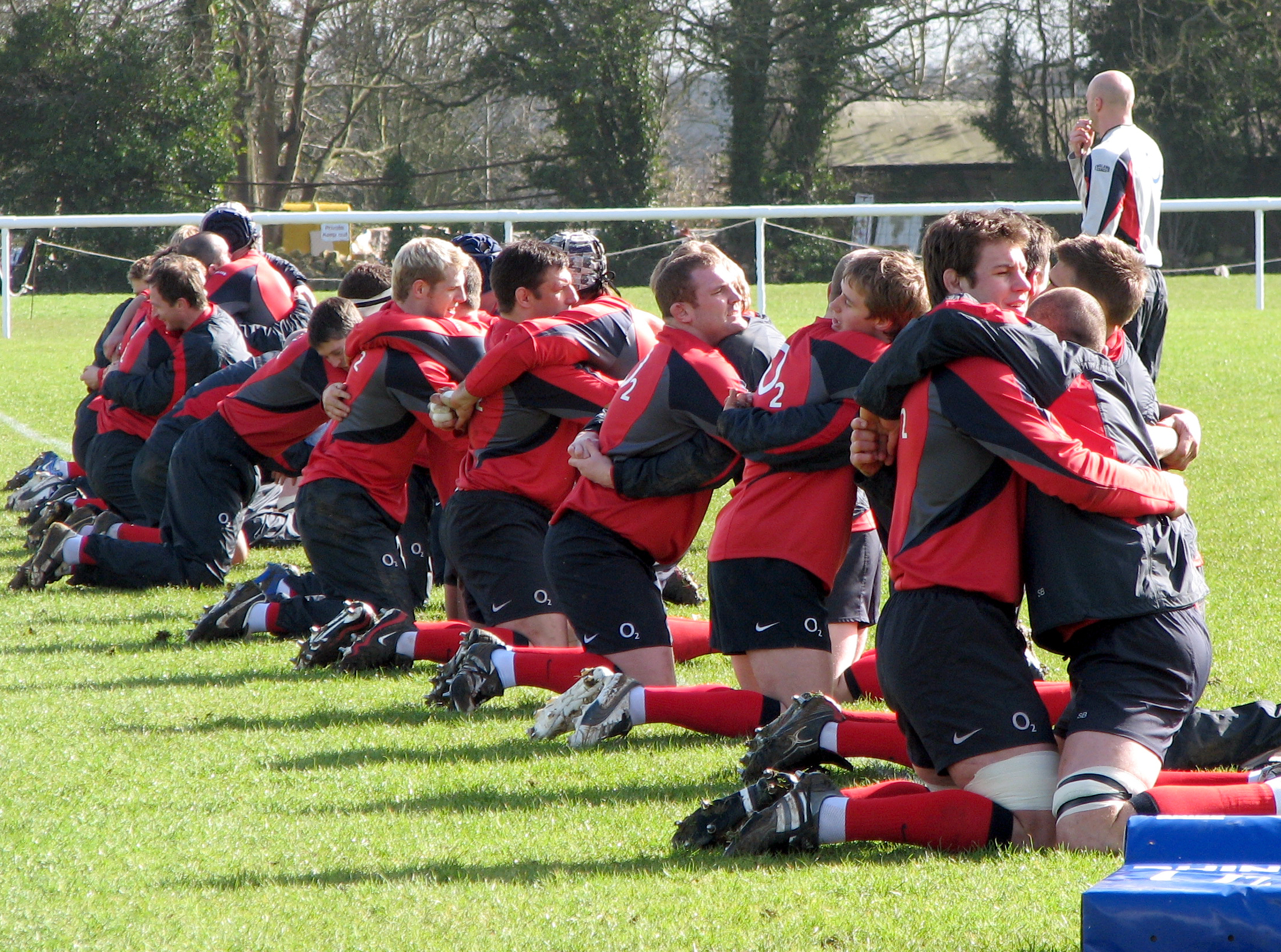 England Rugby Union squad training at the University of Bath, Bath, England, I believe in preparation for the 2007 Rugby World Cup. This was a group hug.